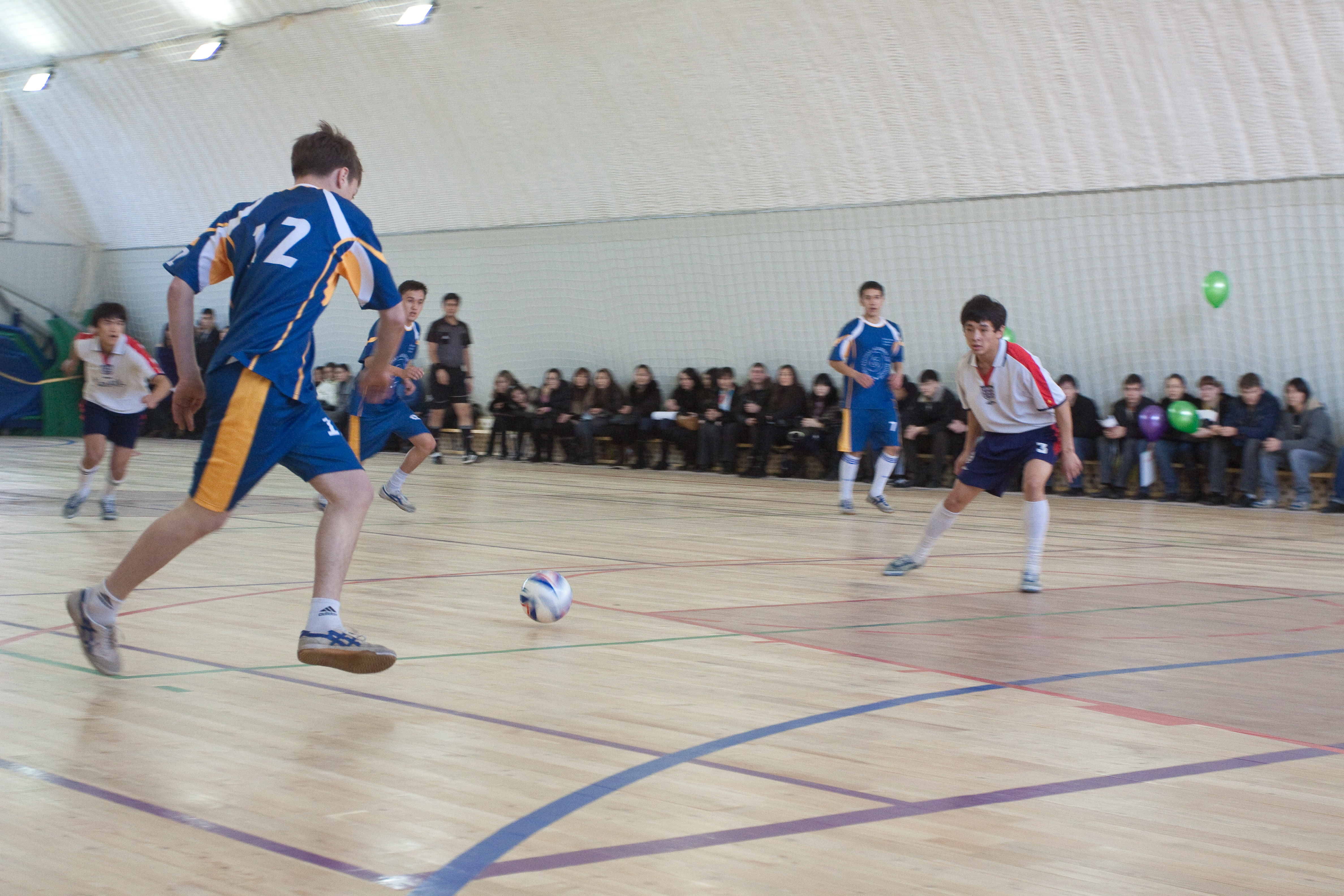 Sport complex of International Academy of Business